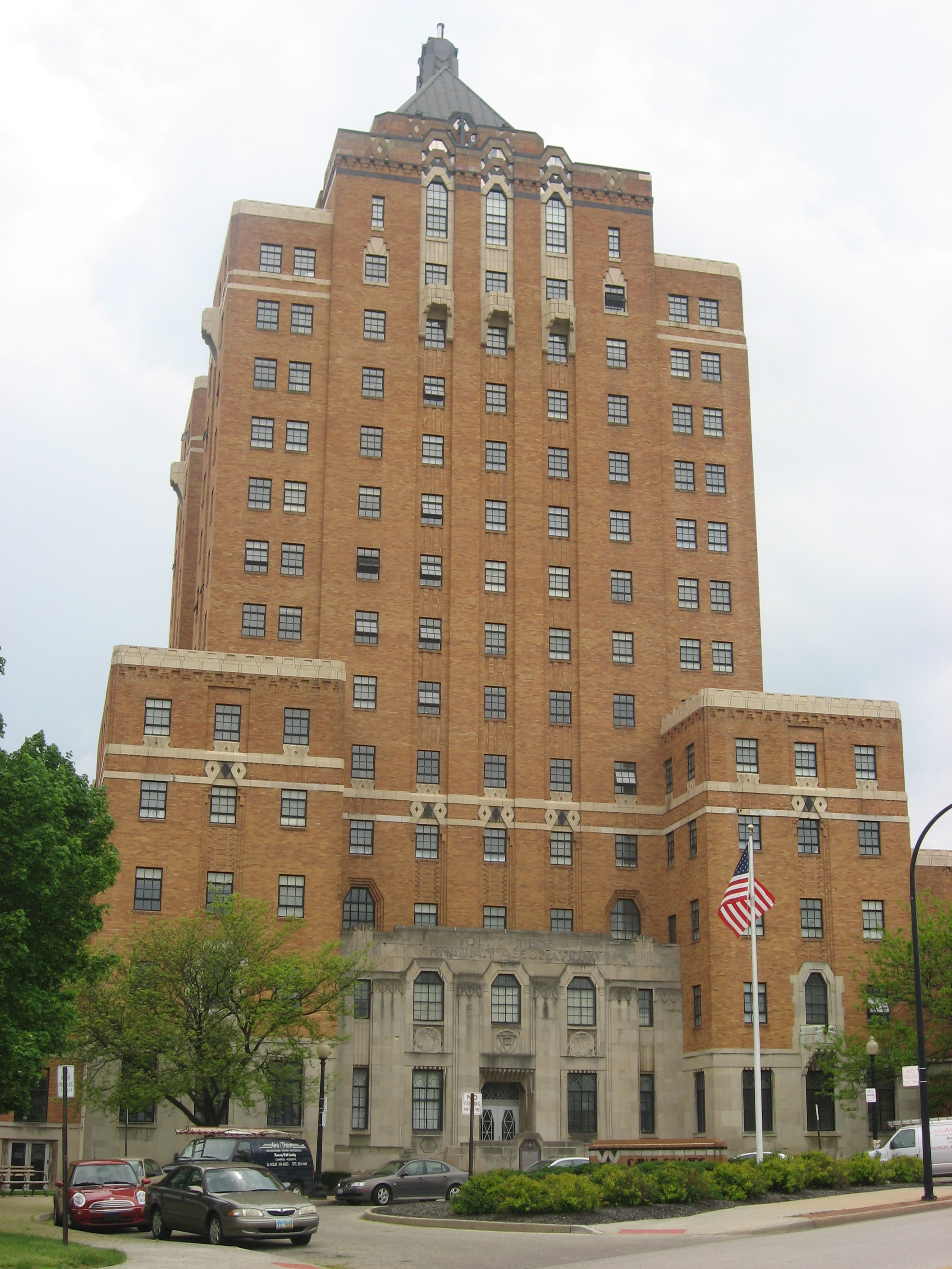 Front of the Akron YMCA Building, located at 80 W. Center Street in Akron, Ohio, United States. Built in 1930, it is listed on the National Register of Historic Places.